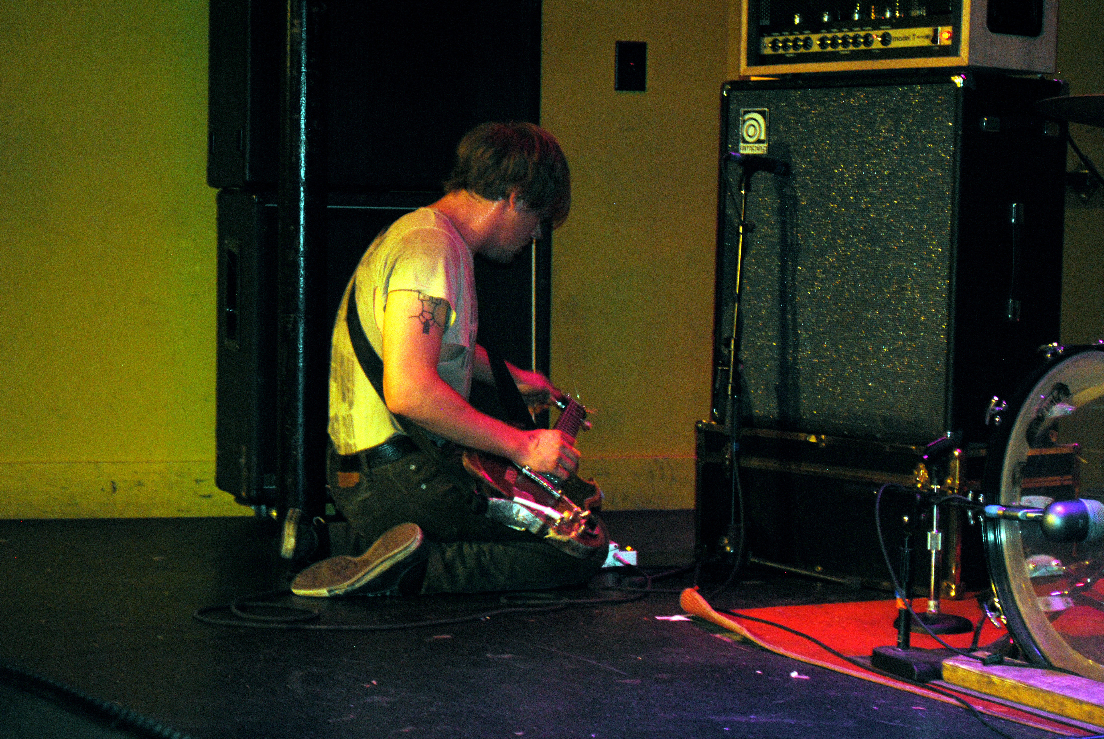 Published on